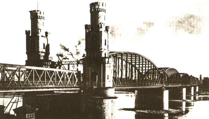 Torun, Poland, bridge over Vistula 1891